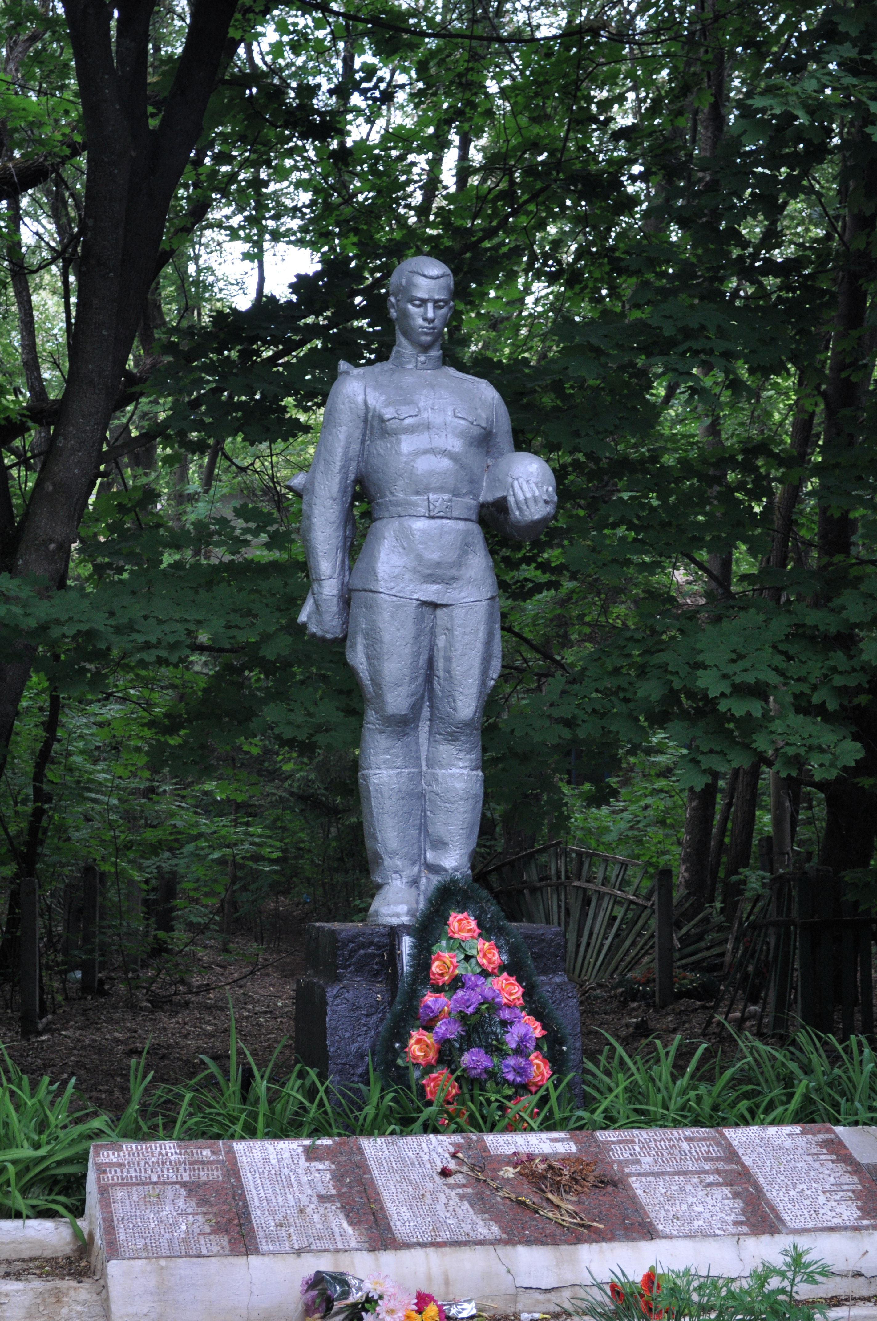 Monument in village Kopachi